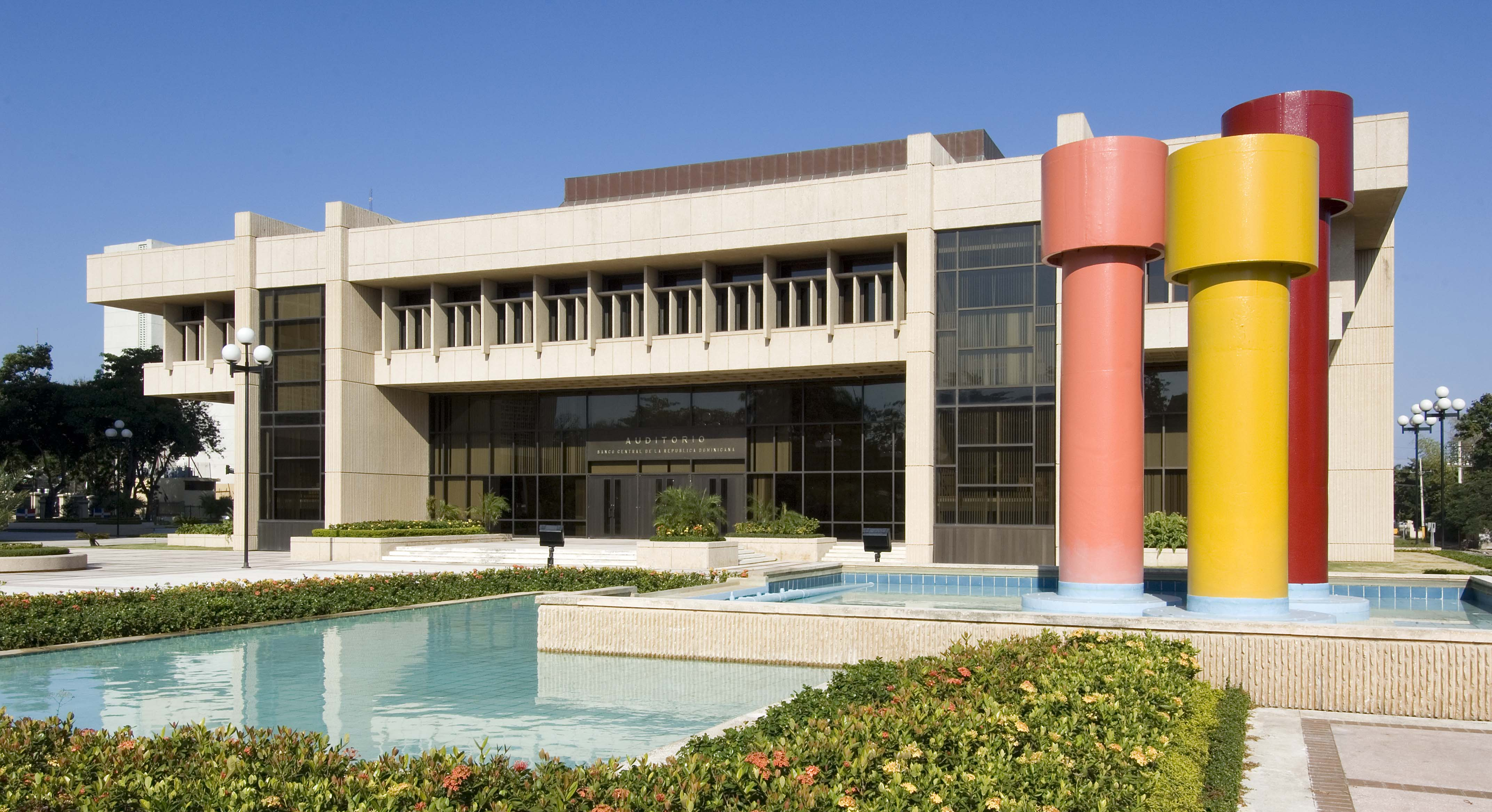 Auditorium of the Central Bank of the Dominican Republic, in Santo Domingo